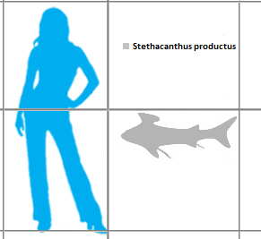 Comparative size of a Stethacanthus productus